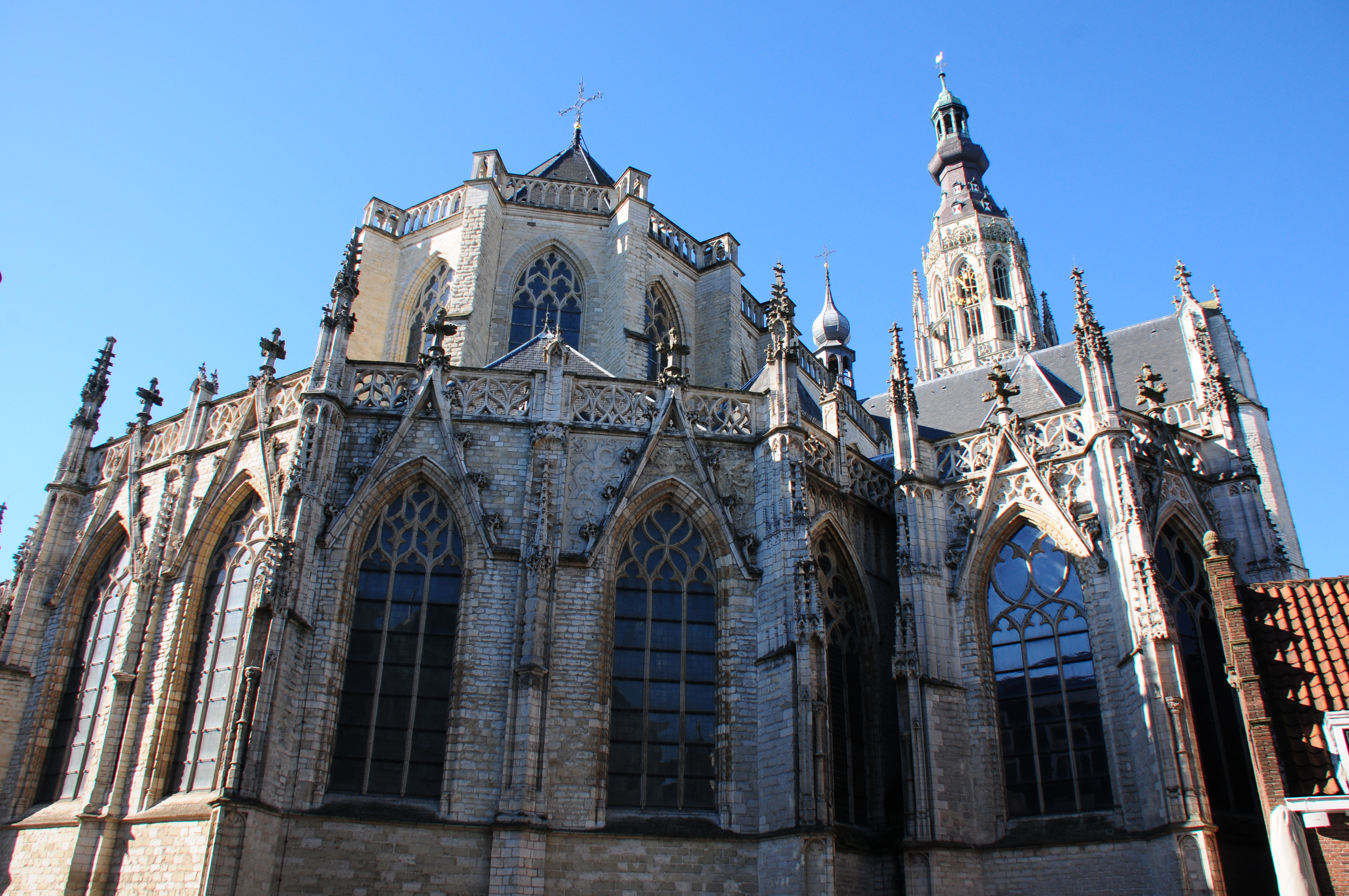 "Onze lieve vrouwe kerk" at Breda founded in the 15th century